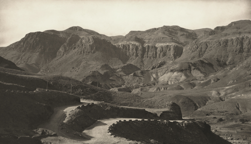 Kharzan ,Iran